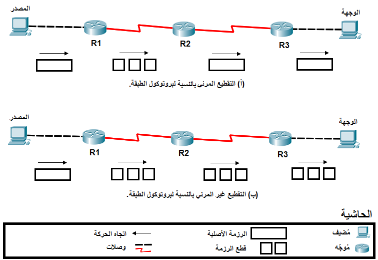 Fragmentation Types: (a) Transparent Fragmentation, The protocol who does the fragmentation, can reassemble the pieces and build the original load in a node on the path between the source and the destination. (B) Non-transparent Fragmentation, The protocol who fragments, can only reassemble the pieces at the final destination.